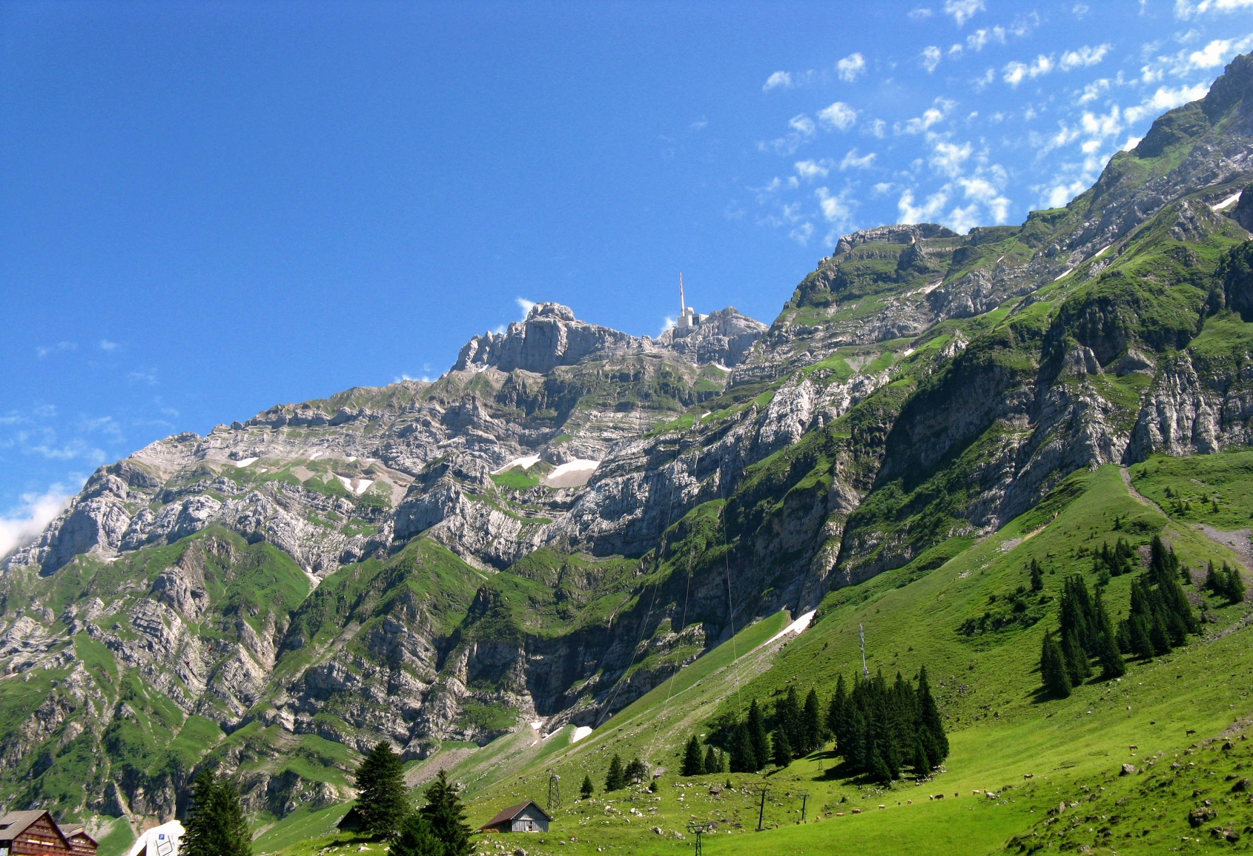 Säntis, Switzerland